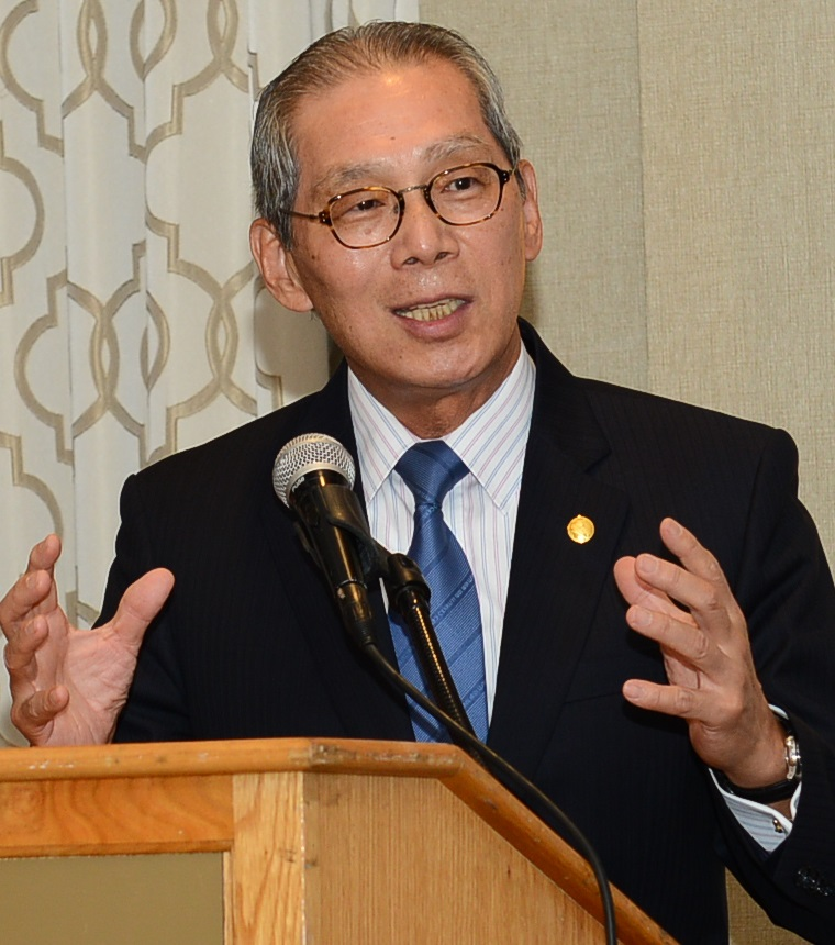 Stanley Kao, Representative, Taipei Economic and Cultural Representative Office in the United States (TECRO).